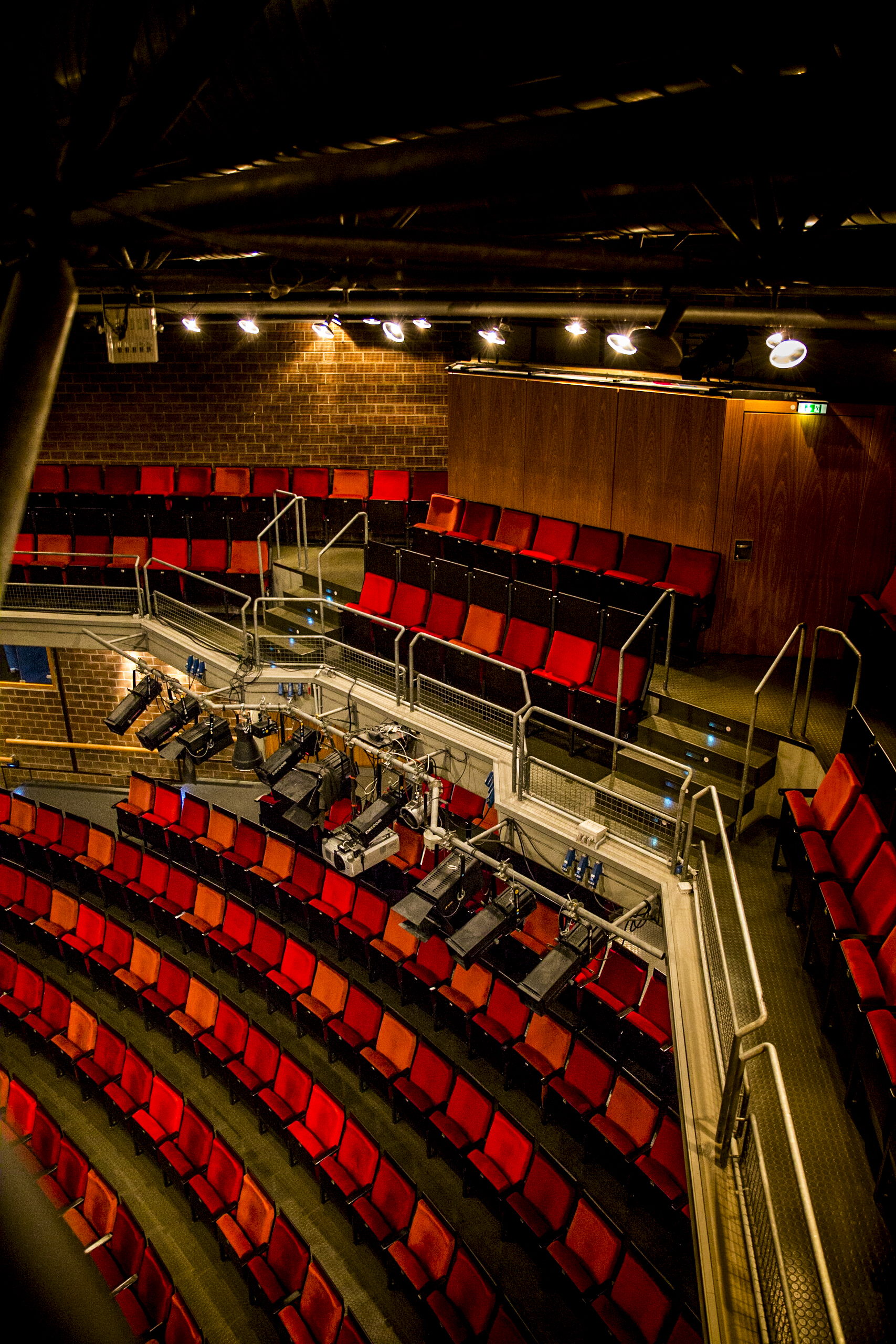 A picture of the main stage of the landestheater tuebingen